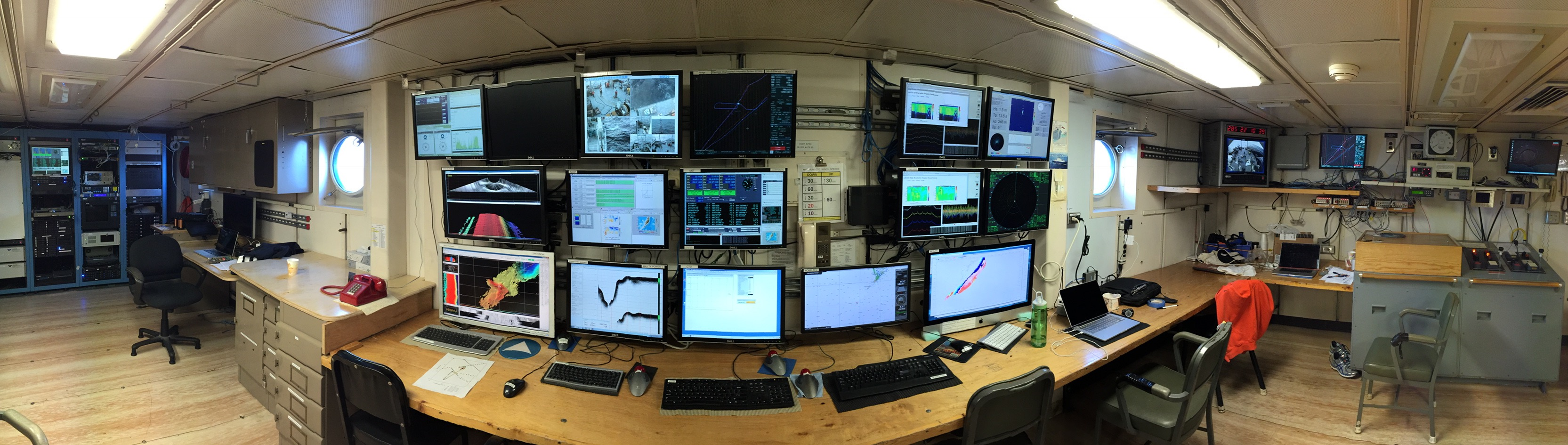 Revelle Computer lab